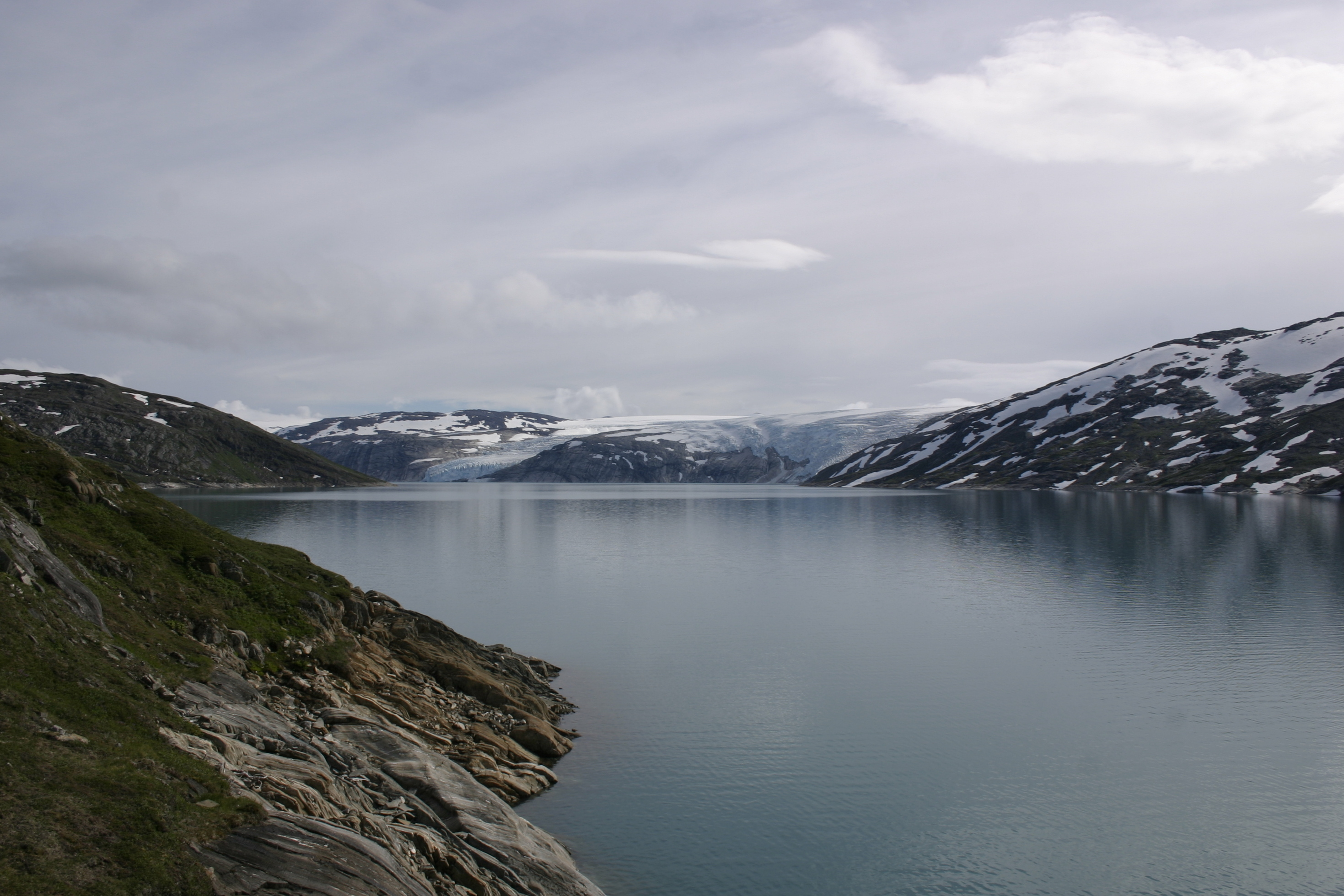 Storglomvatnet reservoir in Nordland, Norway. The photo was taken from top of Holmvassdammen dam 2008-07-18 evening.